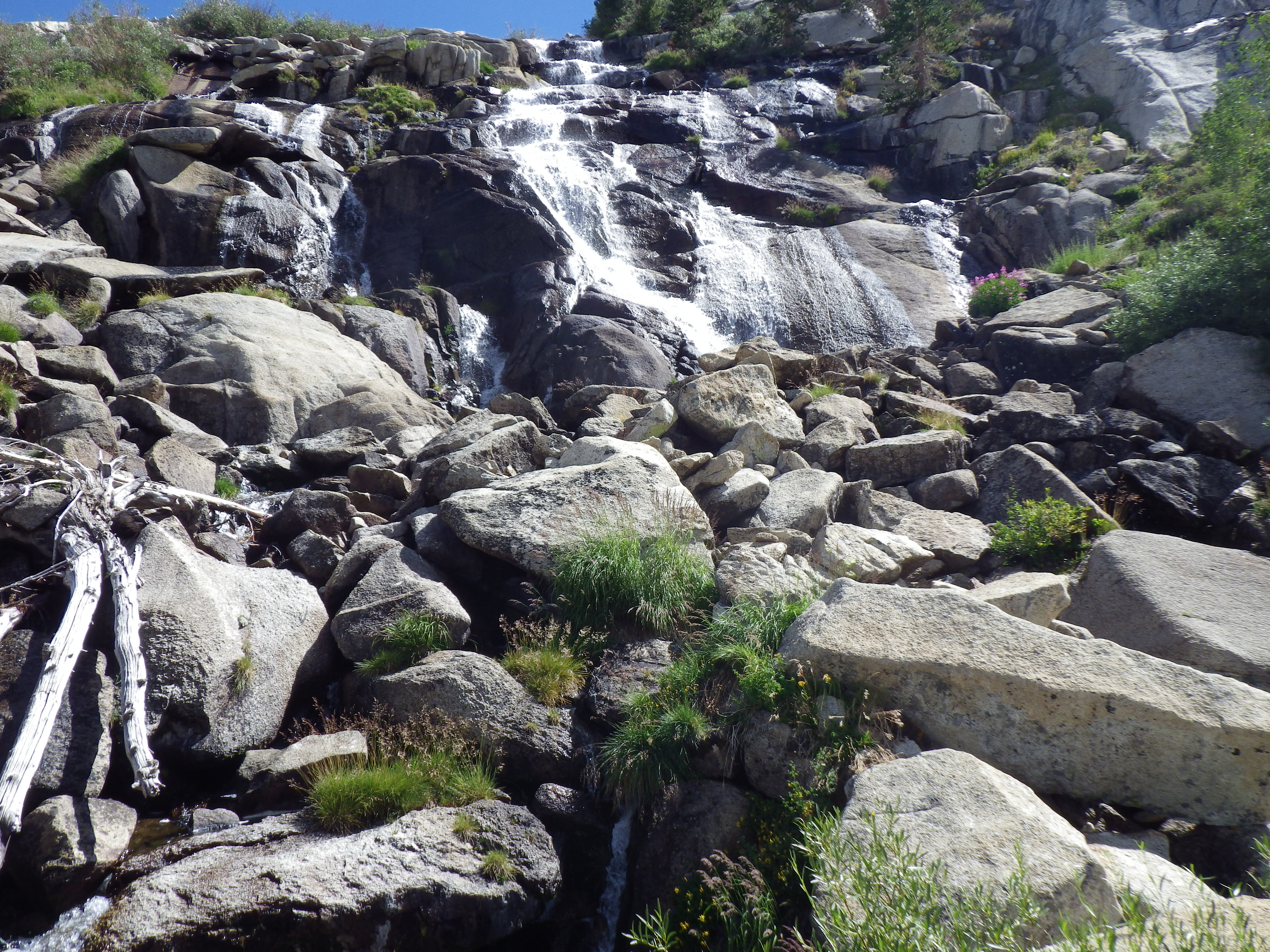 These two bunchgrasses form very picturesque stands along the John Muir Trail (Calamagrostis, center, the larger bunchgrass; Deschampsia, the two smaller bunchgrasses in front and to the left).